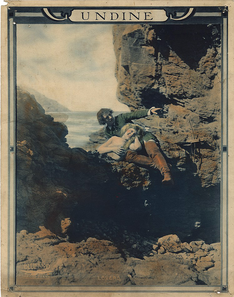 Lobby card for the silent film Undine (1916) with Ida Schnall.